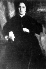 public domain, photo by Victor Nappelbaum, 1922